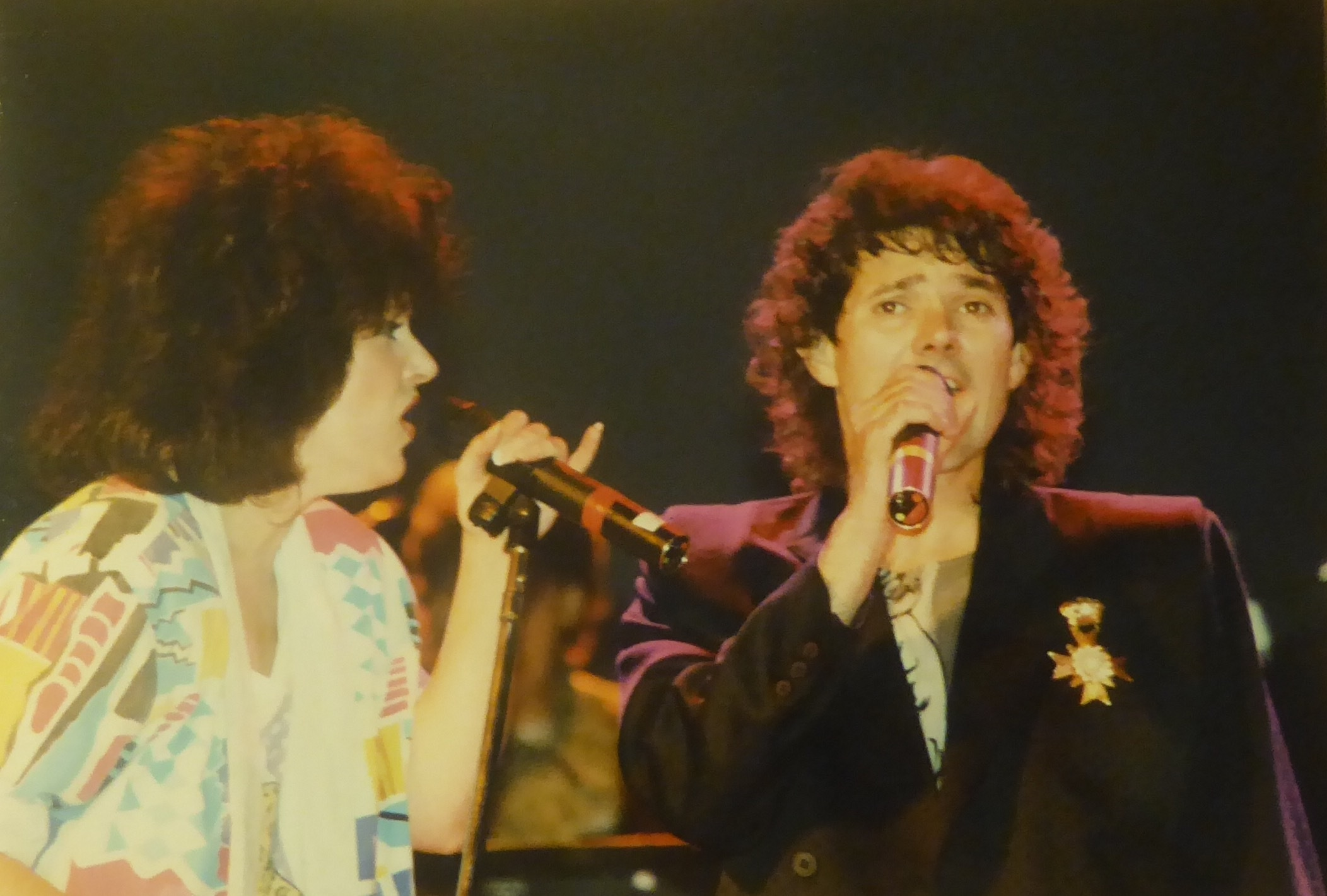 Grace Slick and Mickey Thomas in Starship - 1985 Cleveland's Public Hall